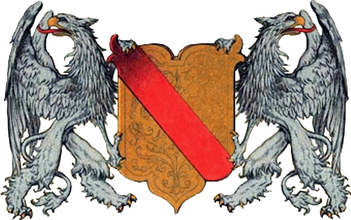 The heraldic achievement of the Republic of Baden, which was established in 1918 after the abolition of the Grand Duchy of Baden. The escutcheon and supporters are actually usurped from the heraldic achievement of the Grand Dukes. For an escutcheon, Or a bend gules. For supporters, Two griffins rampant regardant argent.